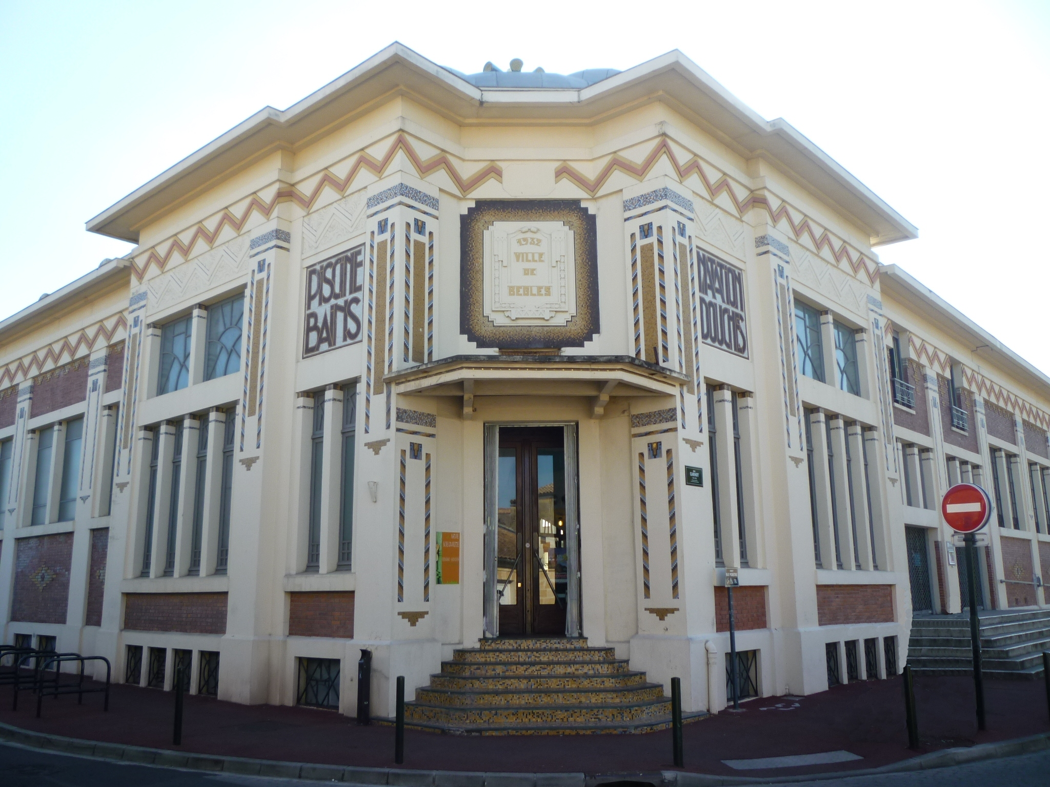 summer 2012